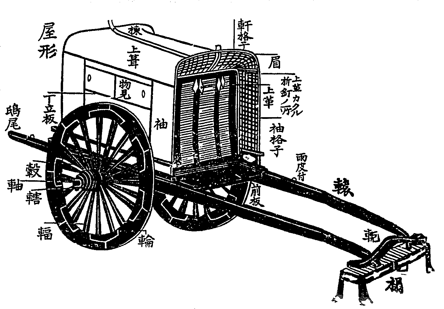 Gissya as Japanese cart drawn by cattle